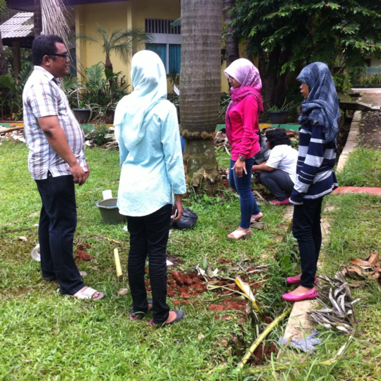 Wiki-ID meet up in WikiCamp Buaran, attended by 30 participants, 9 February 2014.